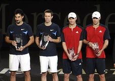 Daniel Nestor & Nenad Zimonjic holding the 2008 Tennis Masters Cup trophies, next to the runners-up, Bob & Mike Bryan (crop)